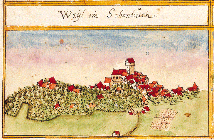 View of Weil im Schönbuch from the forest register books created by Andreas Kieser